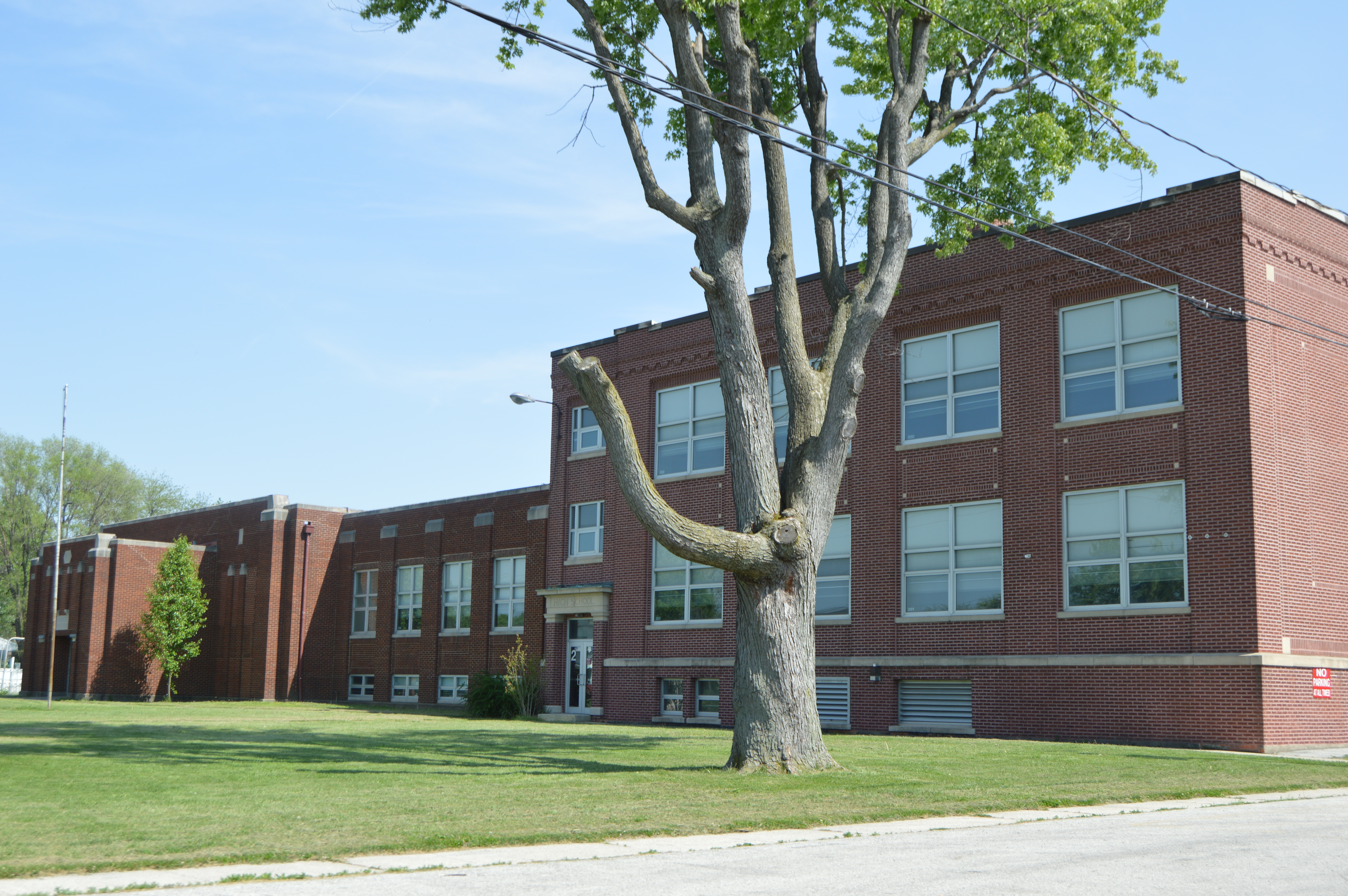 Front and western side of the former Walbridge High School, located at the intersection of Union and Grove Streets in Walbridge, Ohio, United States. It was built in 1950.